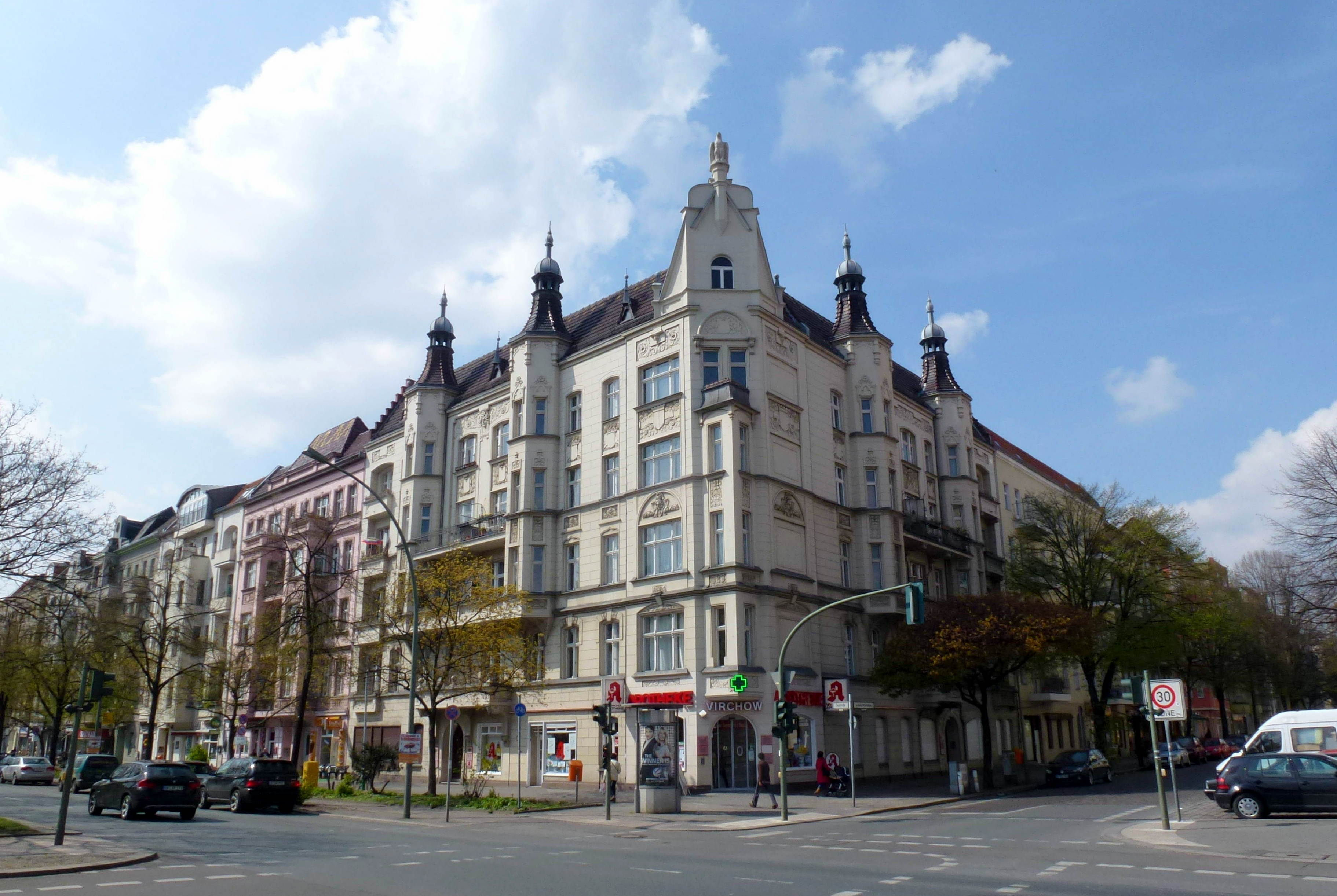 Berlin-Wedding Seestraße 99